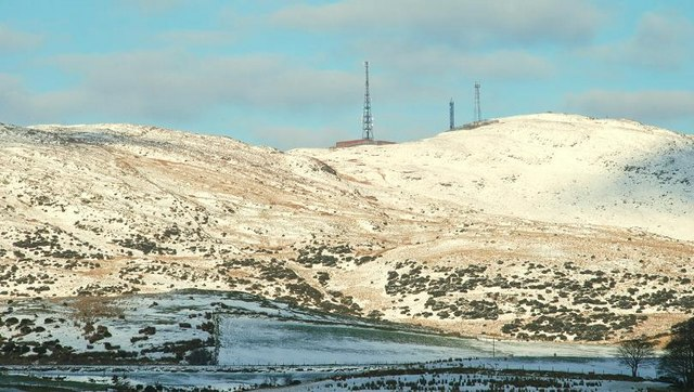 Snow on Slieve Croob. Snow on Slieve Croob seen from the Kilnhill Road 1148216.